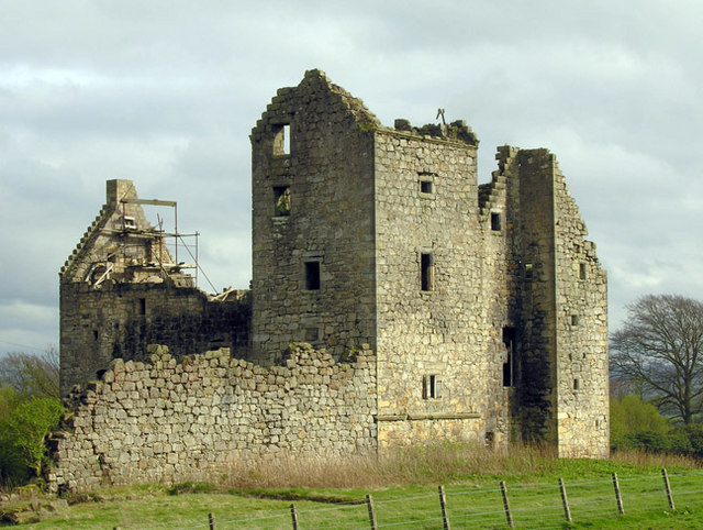 Torwood Castle ruin April 2007 Built in 1566 for Sir Alexander Forrester. The ruin was acquired in 1957 by Mr Gordon Millar. He spent the last forty years of his life working on his own to restore the stonework. In November 2002, Torwood Castle estate was given over to Torwood Castle Trust (a registered charity). Torwood Castle is a category ‘A’ listed building. I have just completed a short video of Torwood Castle and Tappoch Broch. You can view it at